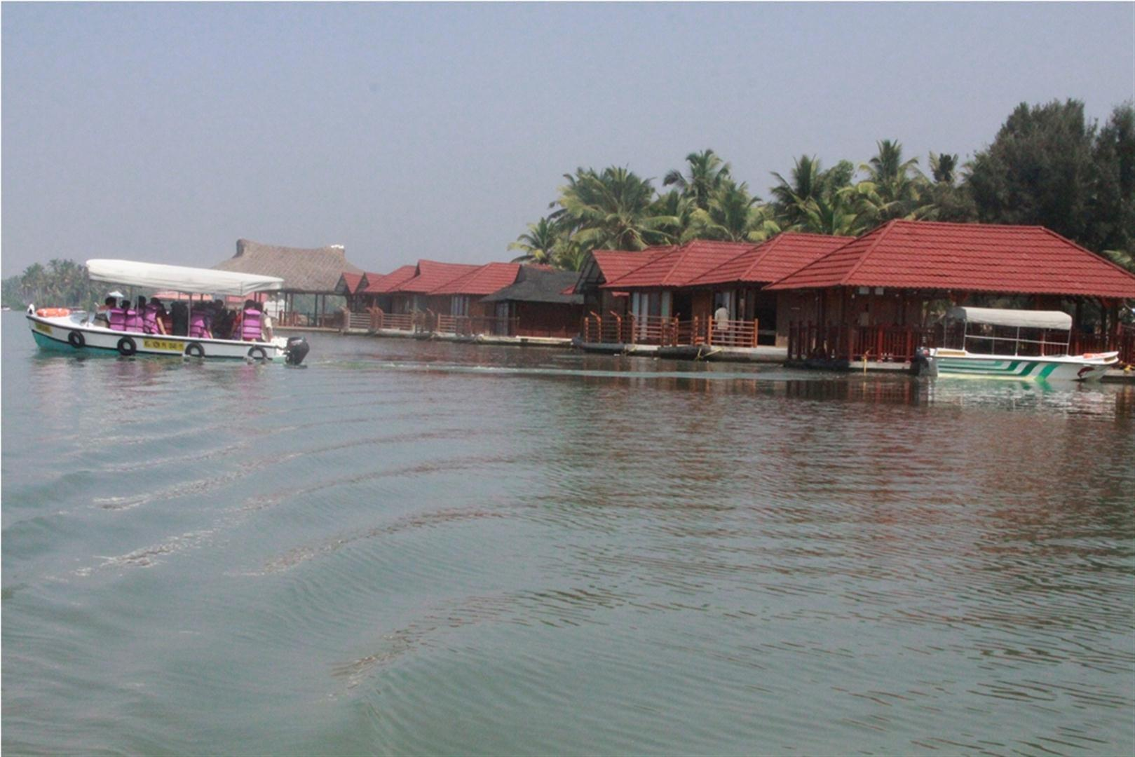 Boat Houses of Kovalam